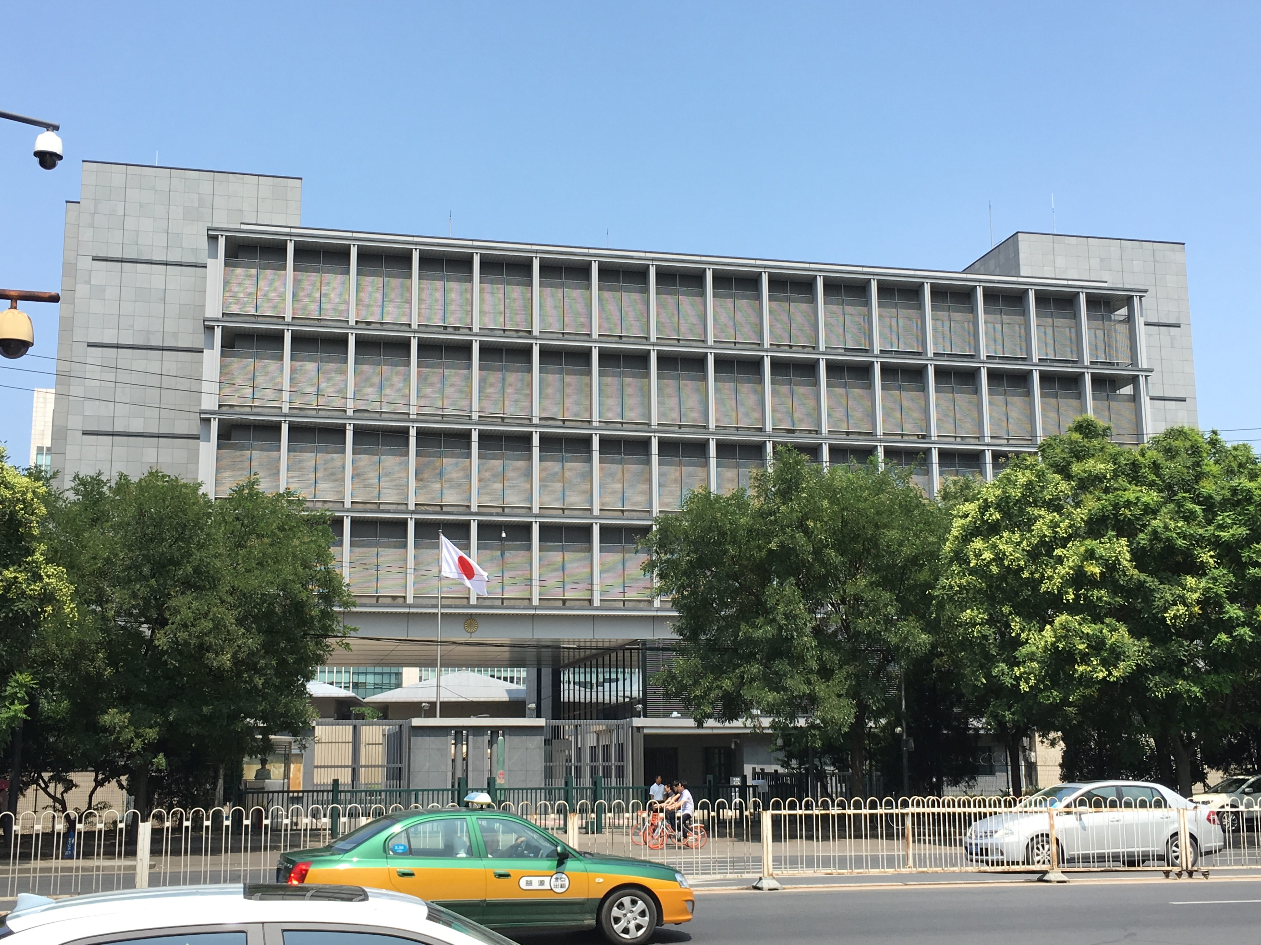 Taken in August 3rd, 2017. Main entrance of the Embassy of Japan in the People's Republic of China.